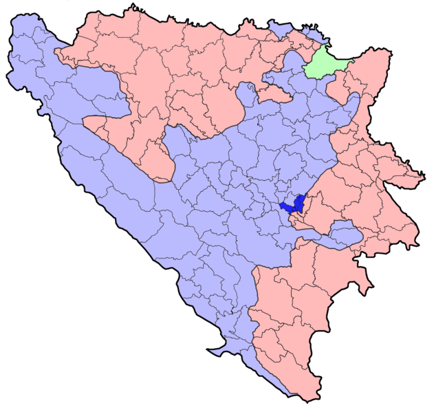 Location of Sarajevo colored blue in map of Bosnia and Herzegovina